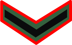 Second Sergeant rank insignia that used on combat uniforms of Indonesian National Armed Forces (holder of command)